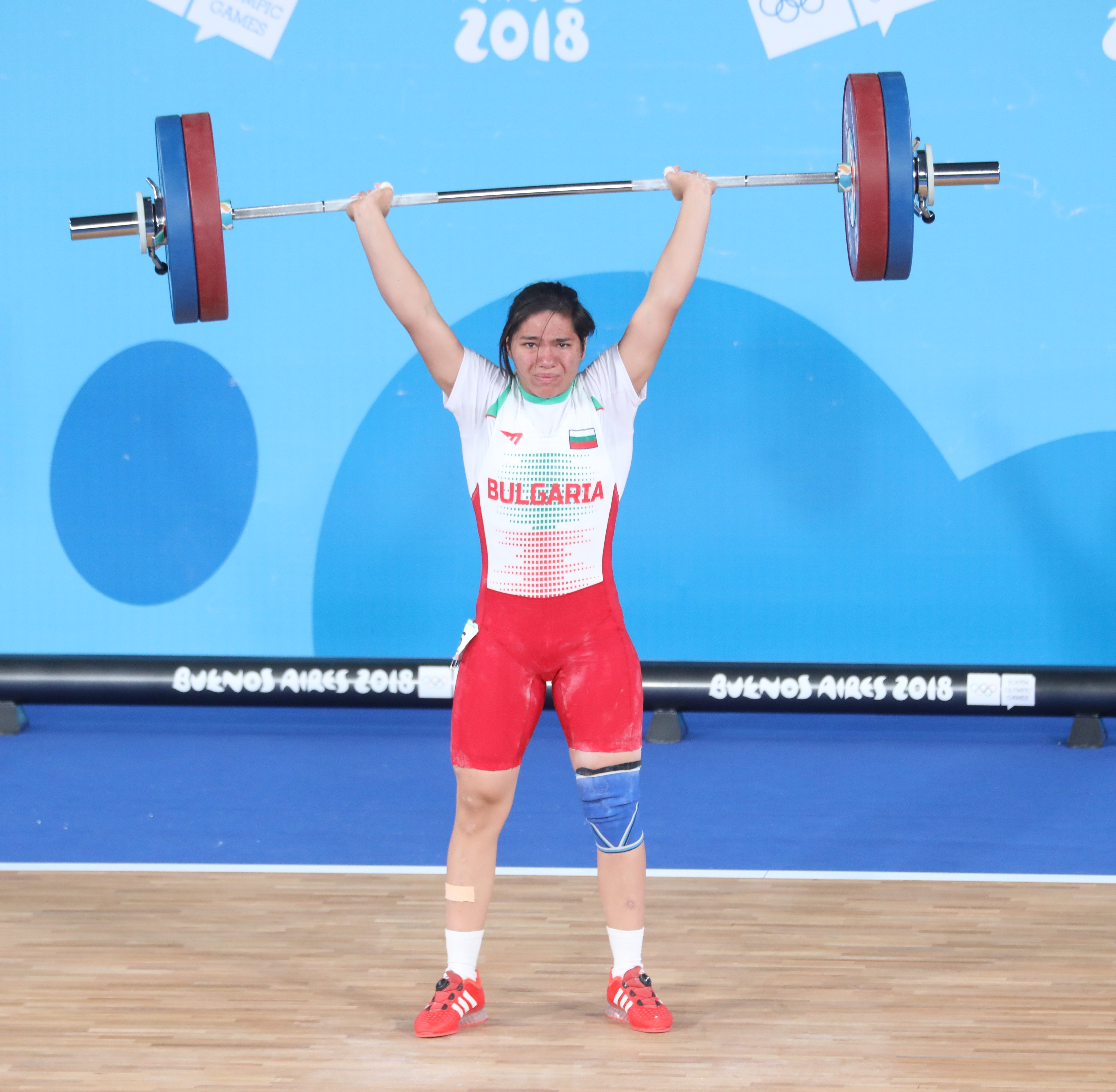 Weightlifting girls' 63 kg at the 2018 Summer Youth Olympics in Buenos Aires on 12 October 2018. Clean & Jerk.